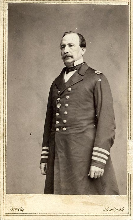 Commodore (later Vice Admiral) Stephen C. Rowan, US Navy